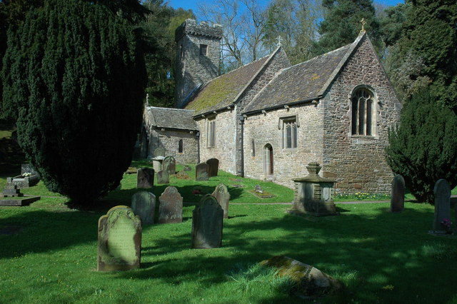 Llanbadoc Church Llanbadoc church is dedicated to St Madoc and was the church where Alfred Russel Wallace was baptisted, see: 1268343